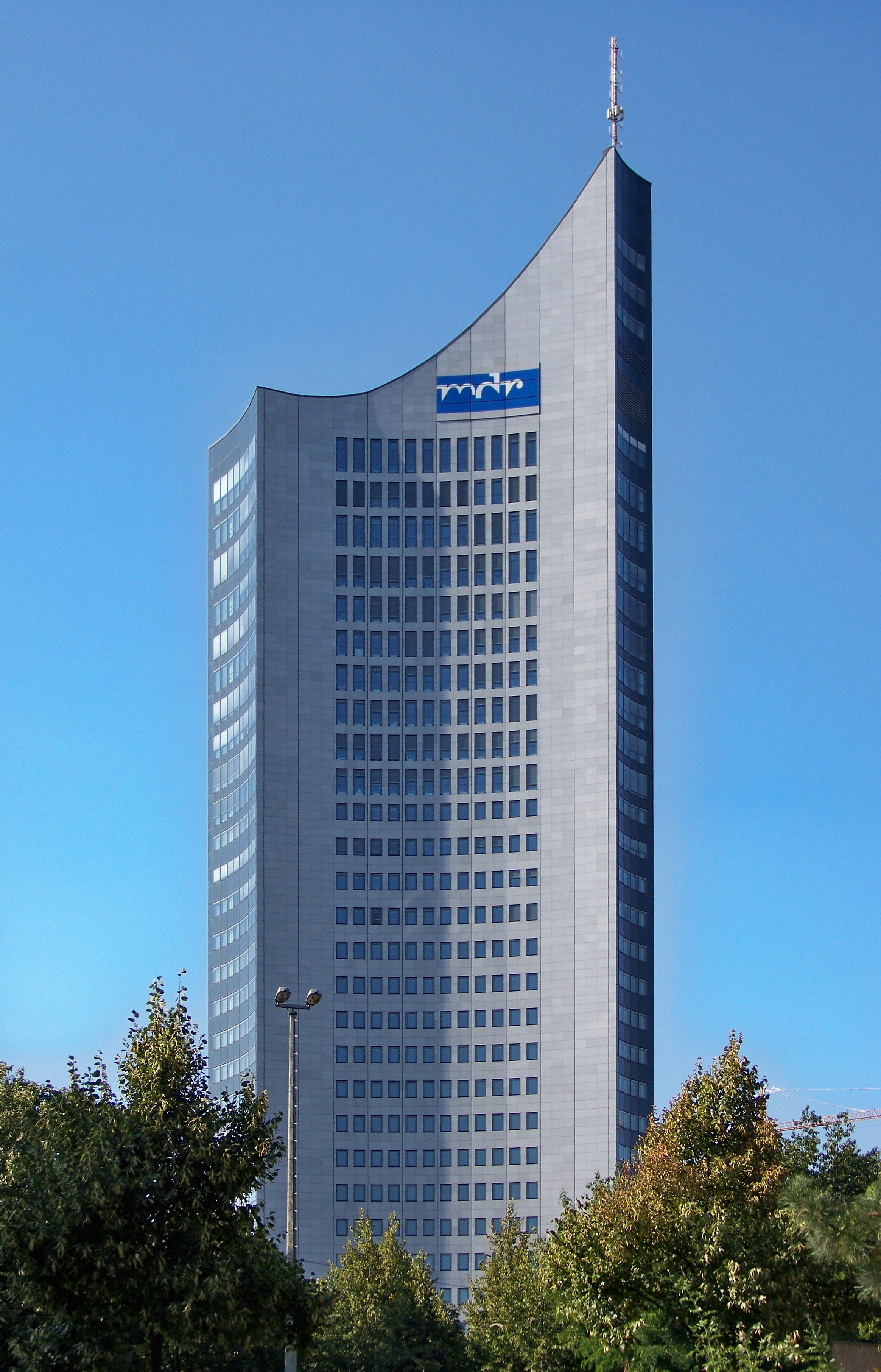 City High-rise (City-Hochhaus) in Leipzig (Germany). At a height of 142.5 metres, it is the tallest building in the city of Leipzig. Between 1972 und 1973 it was the highest building of Germany.